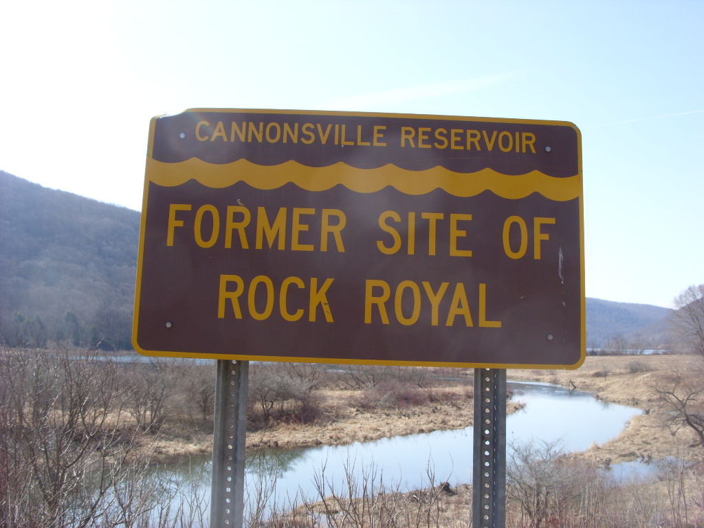 Sign for Cannonsville Reservoir, Delaware County, New York.